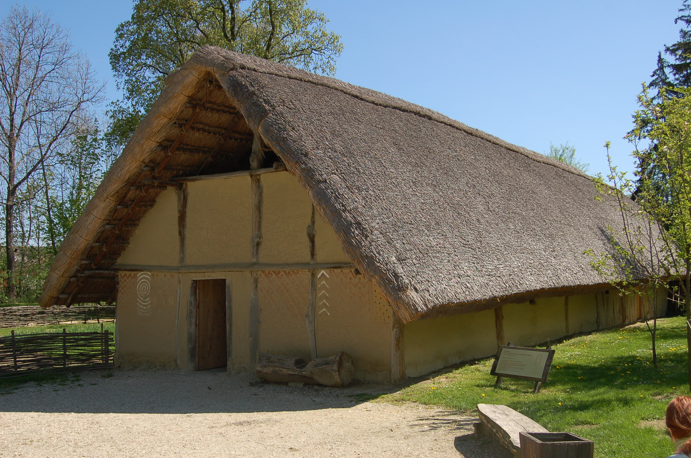 Remake of a neolithic house, Museum of Prehistory, Asparn an der Zaya, Lower Austria